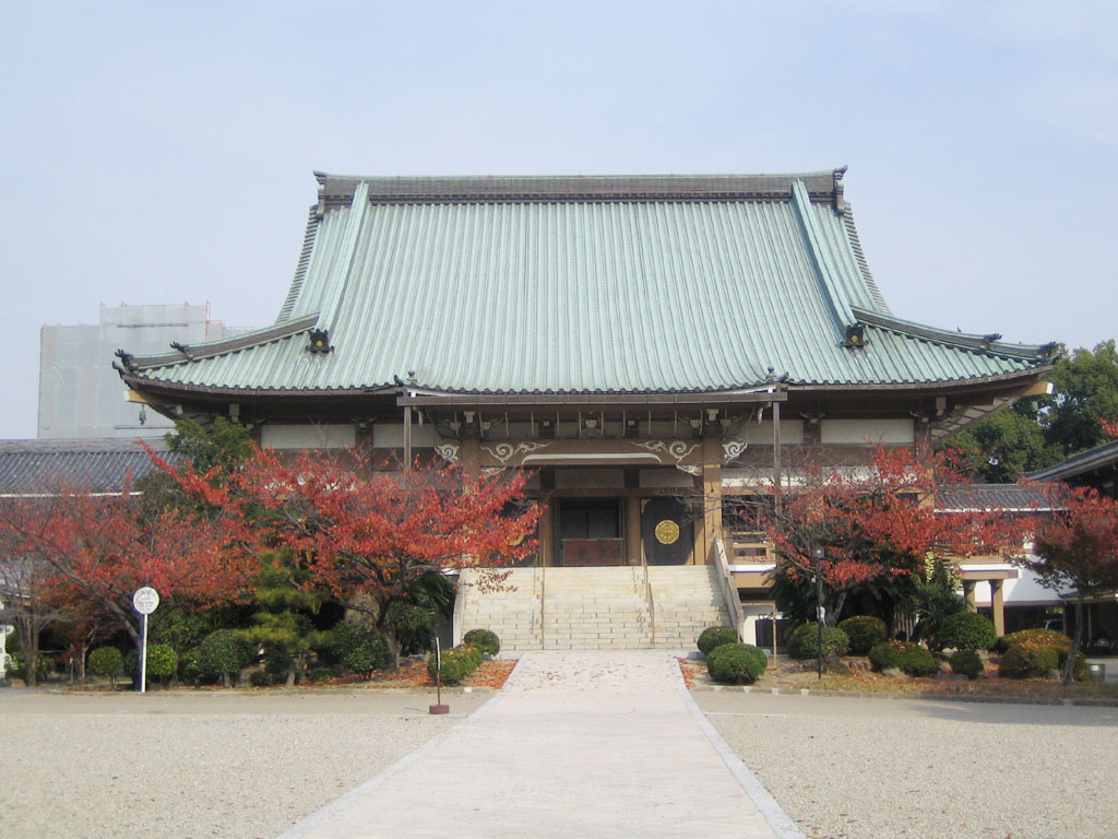 The branch of Higashi-Honganji Temple in Nagoya (東本願寺名古屋別院 Higashi-Honganji Nagoya Betsuin), located in Nagoya, Aichi, Japan